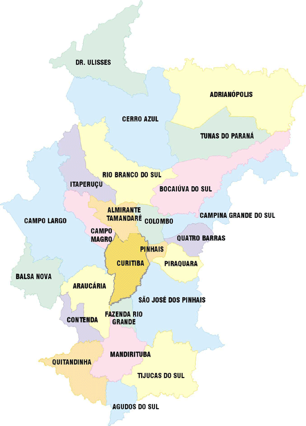 Metropolitan region of Curitiba map, Paraná, Brazil